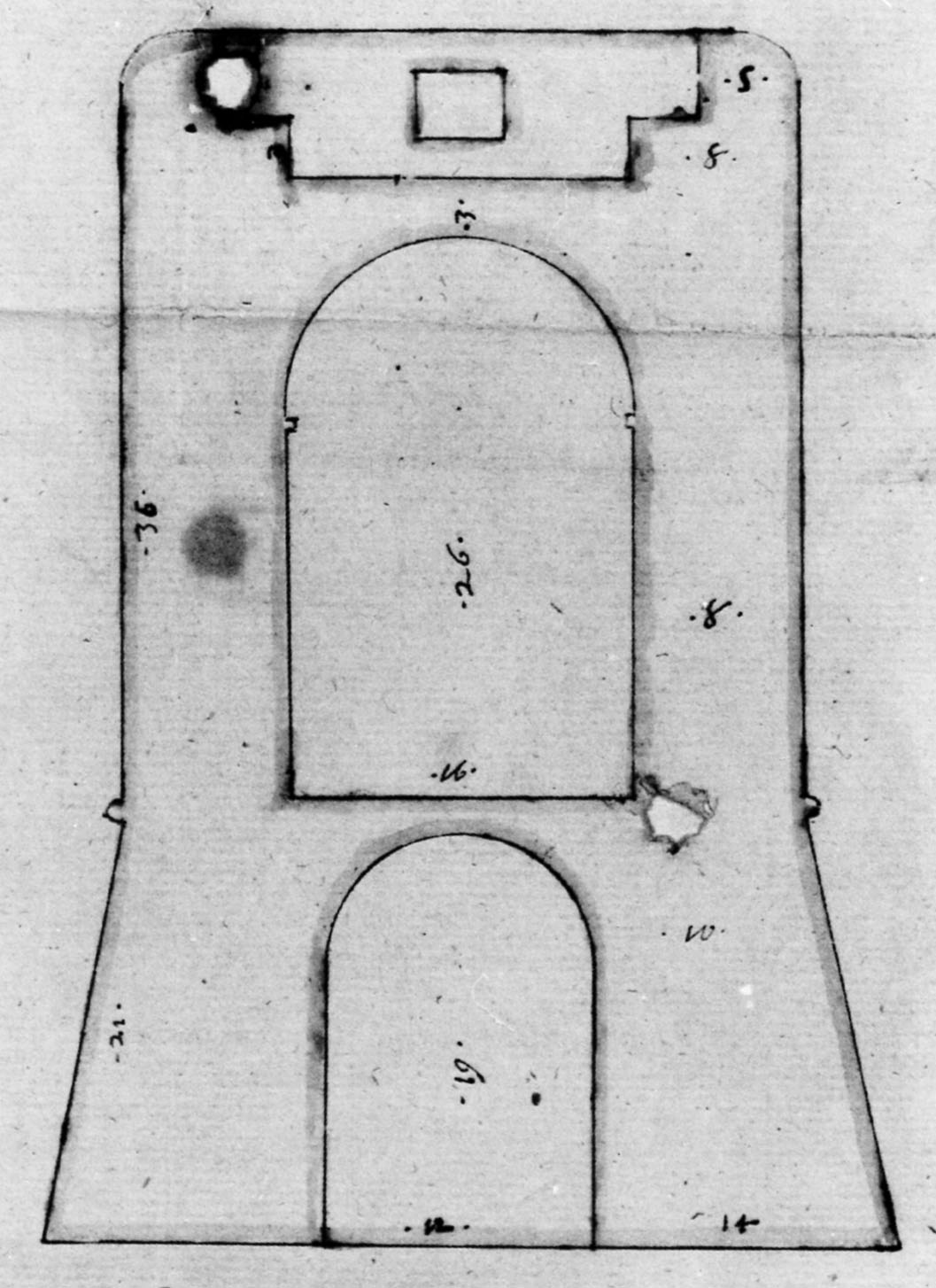 Vertical section of the propose Tour de Losse (L'Osse). The dimensions are given in palmi (1 palmi is approx. 25 cm)